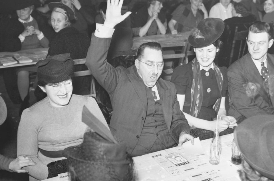 A bingo winner, sitting with other players, raises his hand. This part takes place at 4555 Notre-Dame-de-Grâce in Montreal.